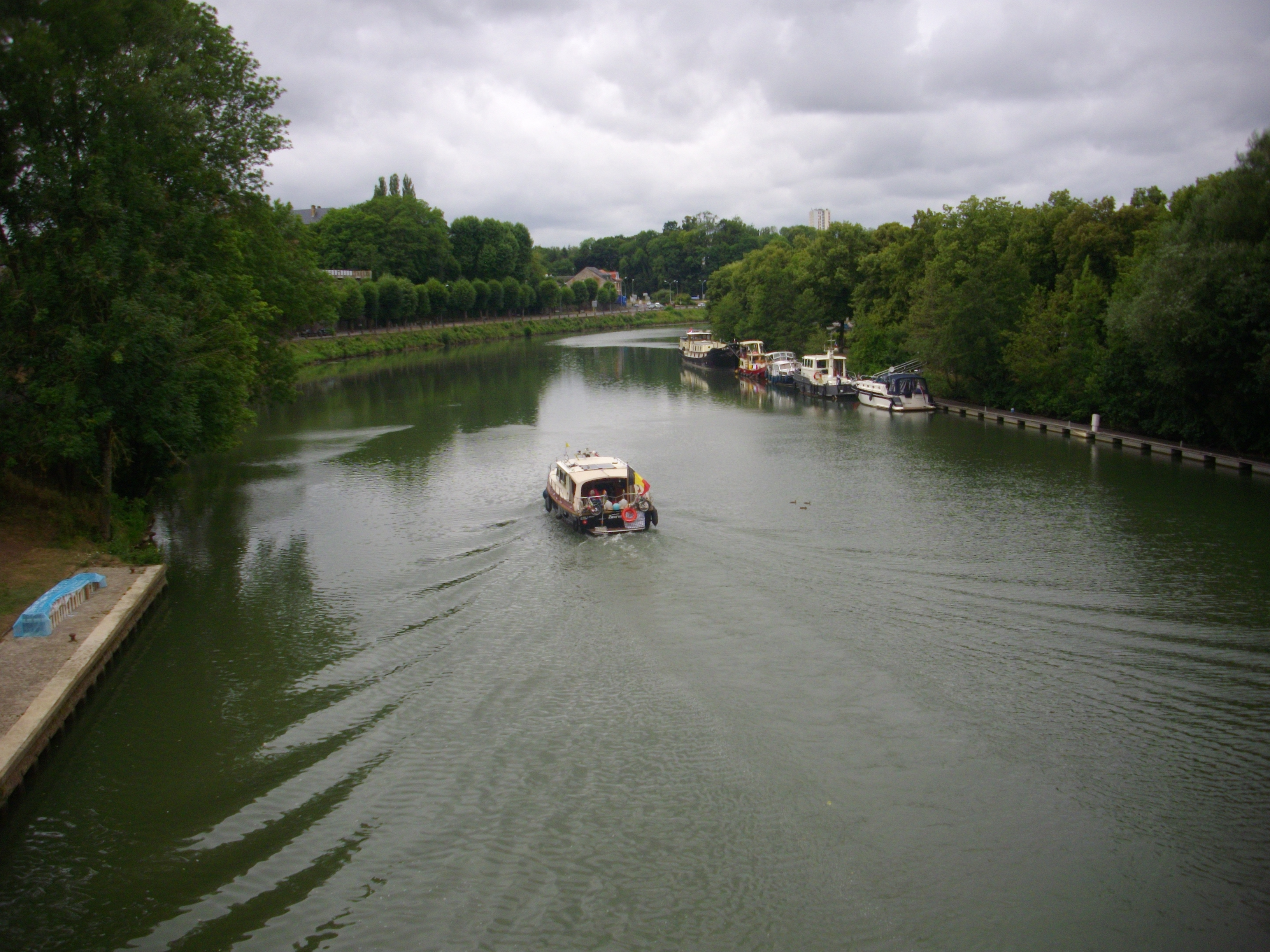 Meuse river between Charleville and Mont-Olympe in Charleville-Mézières (Ardennes, France)